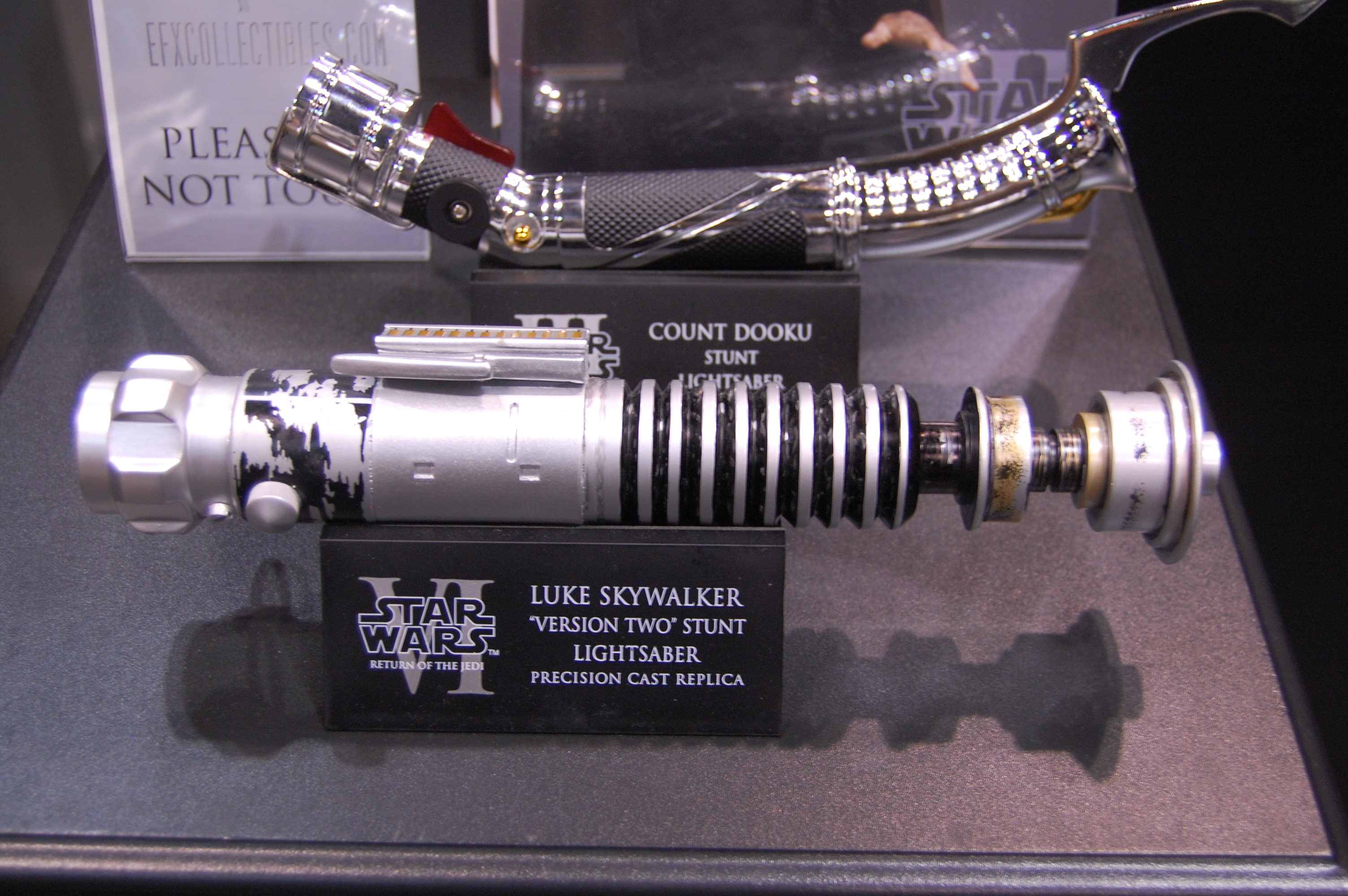 This is Luke Skywalkers and Count Dookus lightsabers.